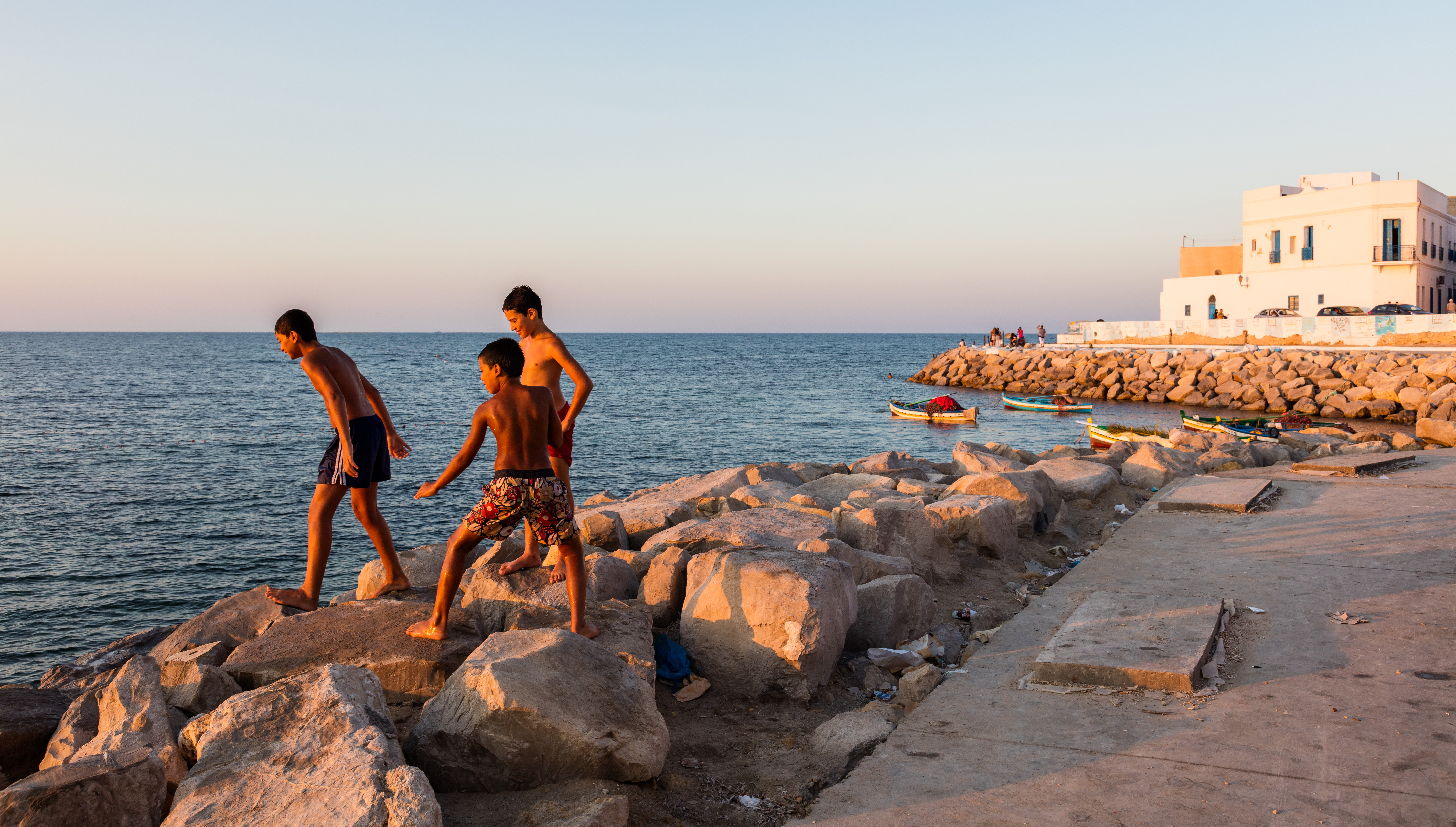 Coast of Mahdia, Tunisia